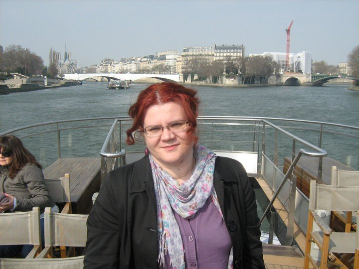 Photo of Olivera Nedeljkovic Српски (ћирилица): Фотографија Оливере Недељковић